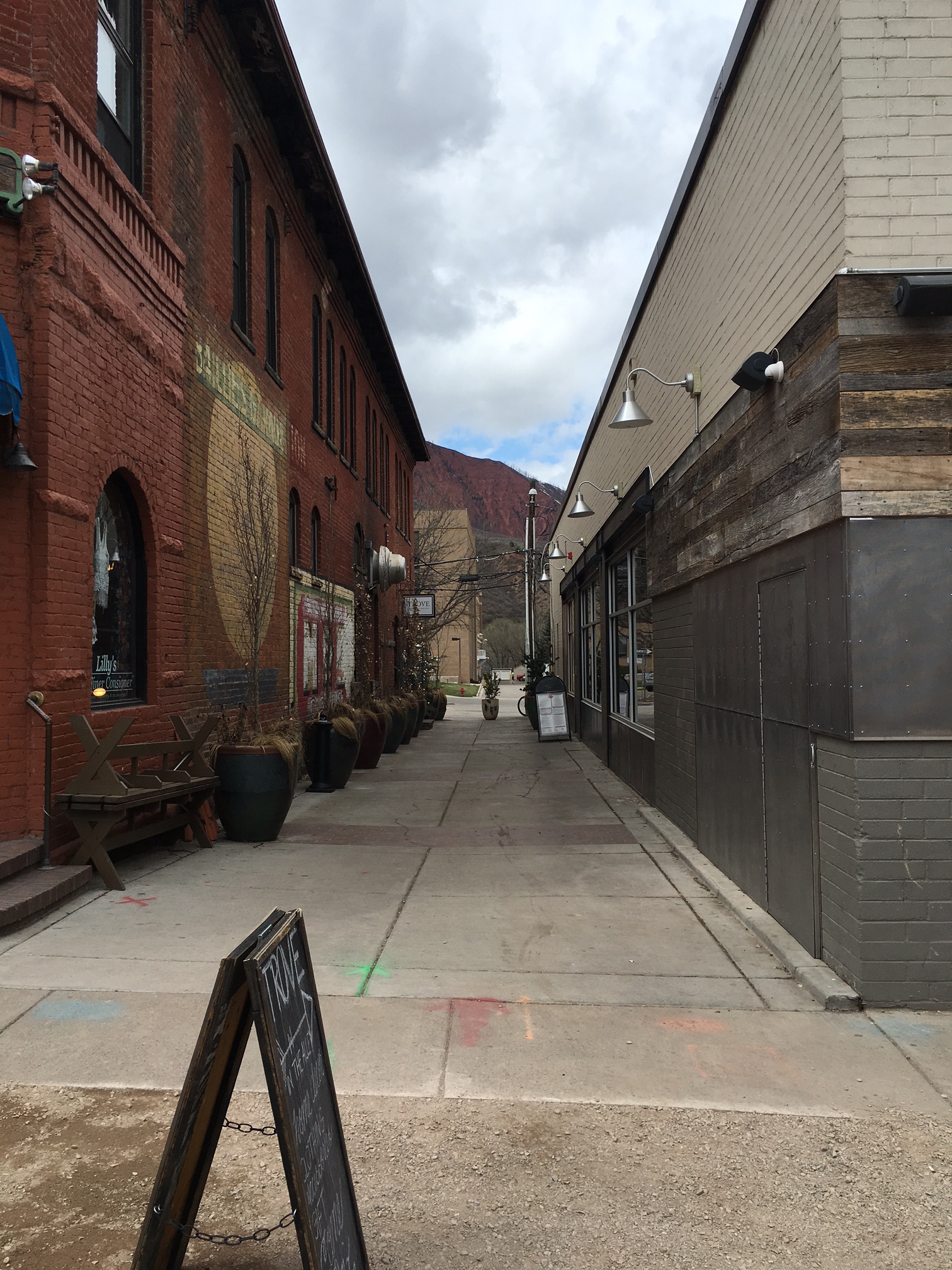 An arcade running between 7th and 8th streets and Grand Avenue.